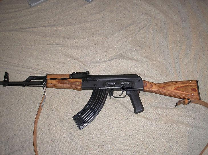 My own image